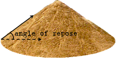 Angle of Repose illustration. Sand pile cut from Andrew Dunn's Sand sorting tower.jpg photo (File:Sand sorting tower.jpg). Font used: Batik Regular. Made it myself using Paint and the Microsoft Word Drawtools (cause I'm that cheap). Captain Sprite 04:27, 29 May 2007 (UTC)